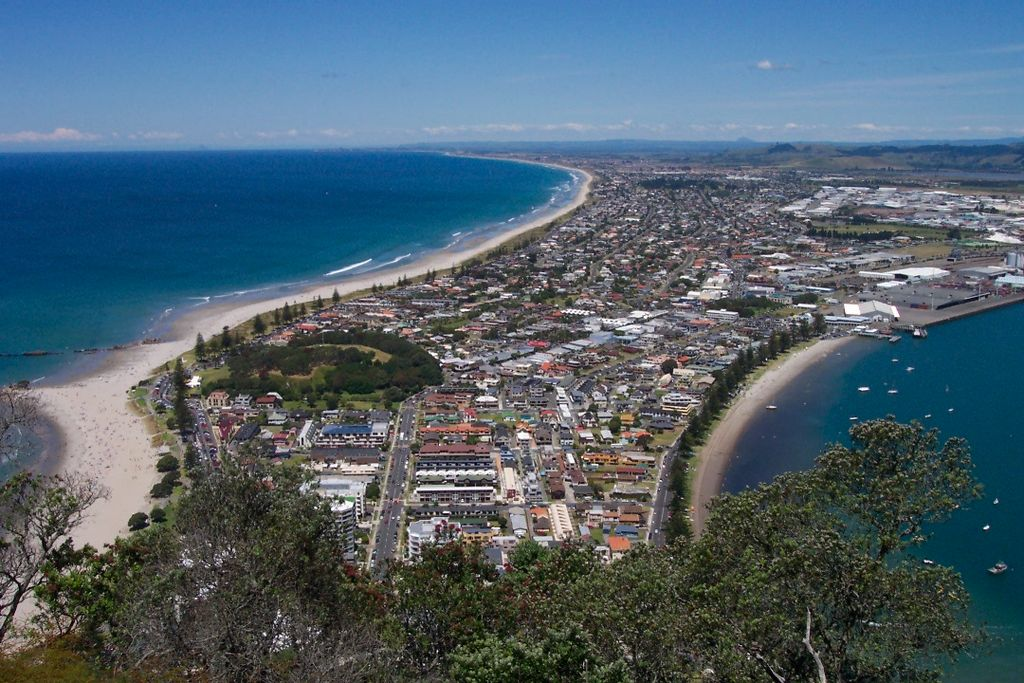 Mount Maunganui, New Zealand